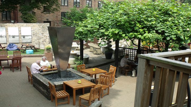 Large outdoor seating area